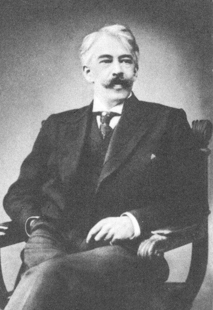 Russian Constantin Stanislavski